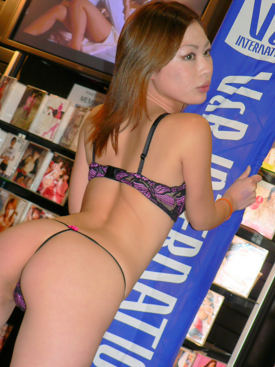 V&R International booth